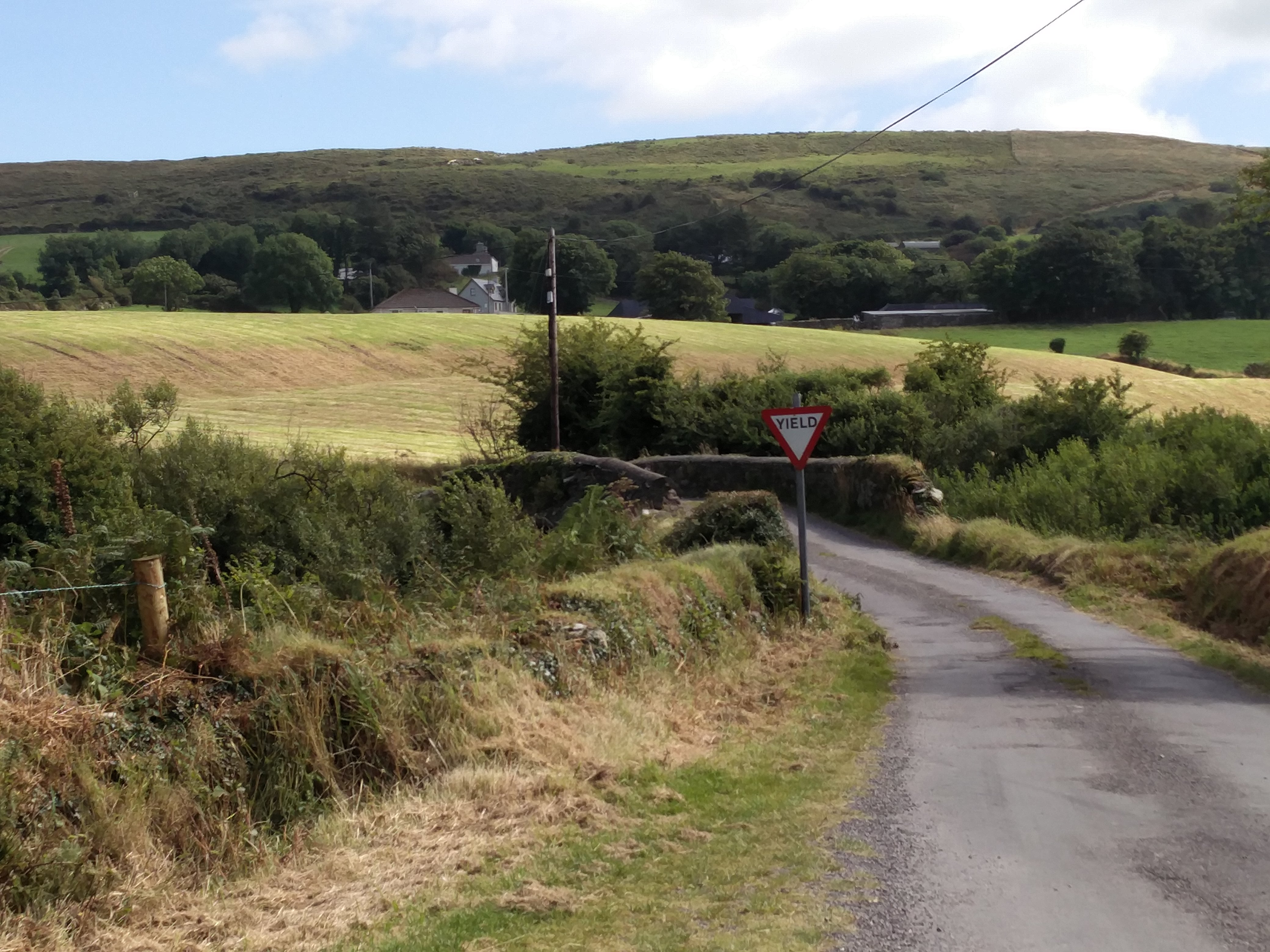 Bridge in Tralibane (Taken August, 2016)